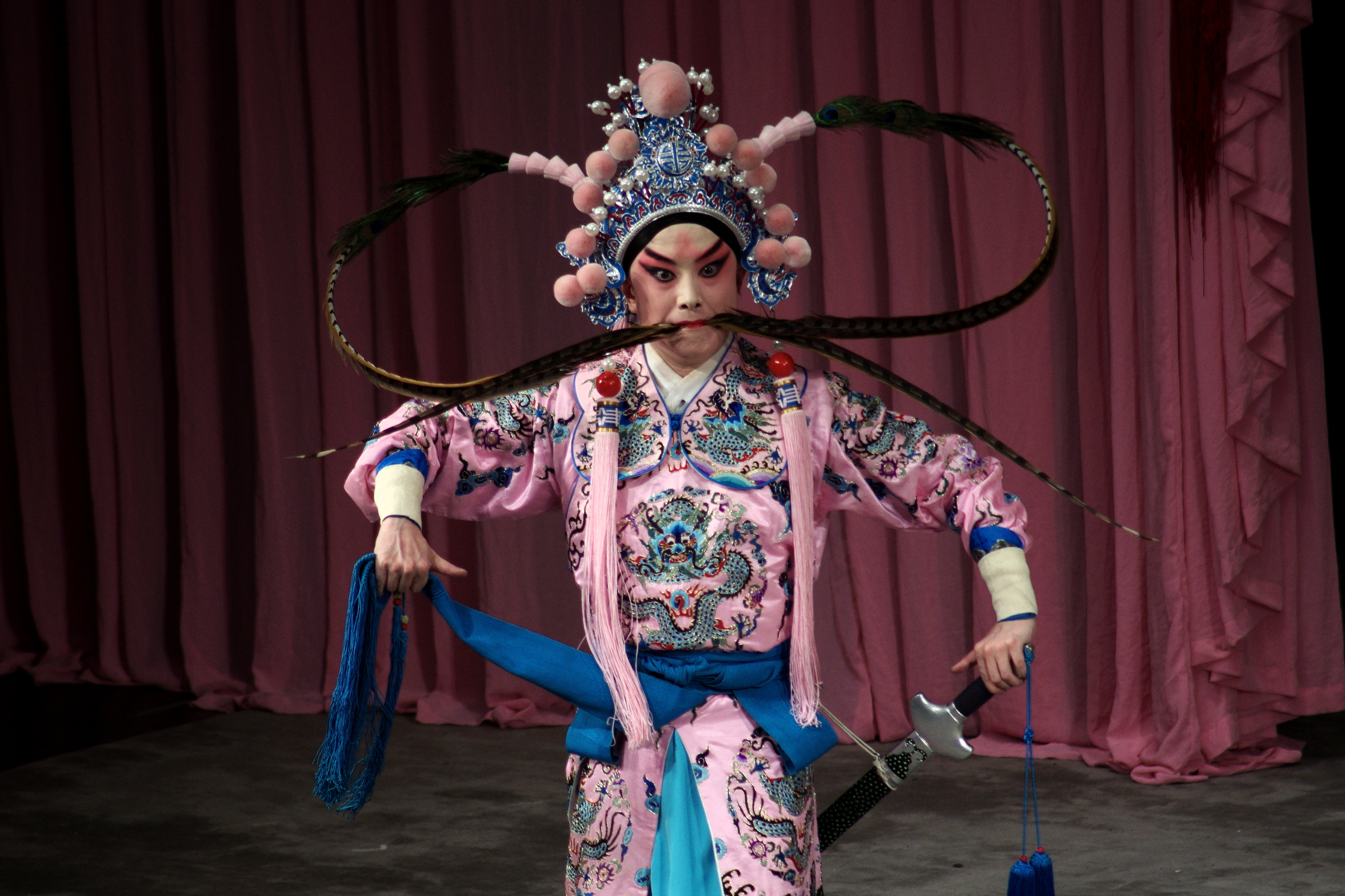 A Peking opera performance in Tianchan Theatre by Shanghai Jingju Theatre Company. Actor Yang Nan (杨楠) plays Lu Bu.